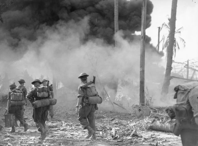 AWM Caption: BALIKPAPAN, BORNEO. 1 JULY 1945. TROOPS OF 2/12 INFANTRY BATTALION MOVING ALONG VASEY HIGHWAY DURING THE OBOE 2 OPERATION. OIL FIRES ARE BLAZING IN THE BACKGROUND.